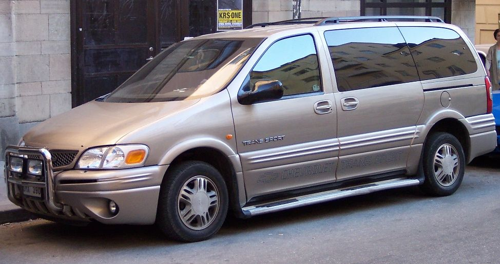 2001 Chevrolet Trans Sport, chassis no 1GNDX03E31D172920 :source:Own picture